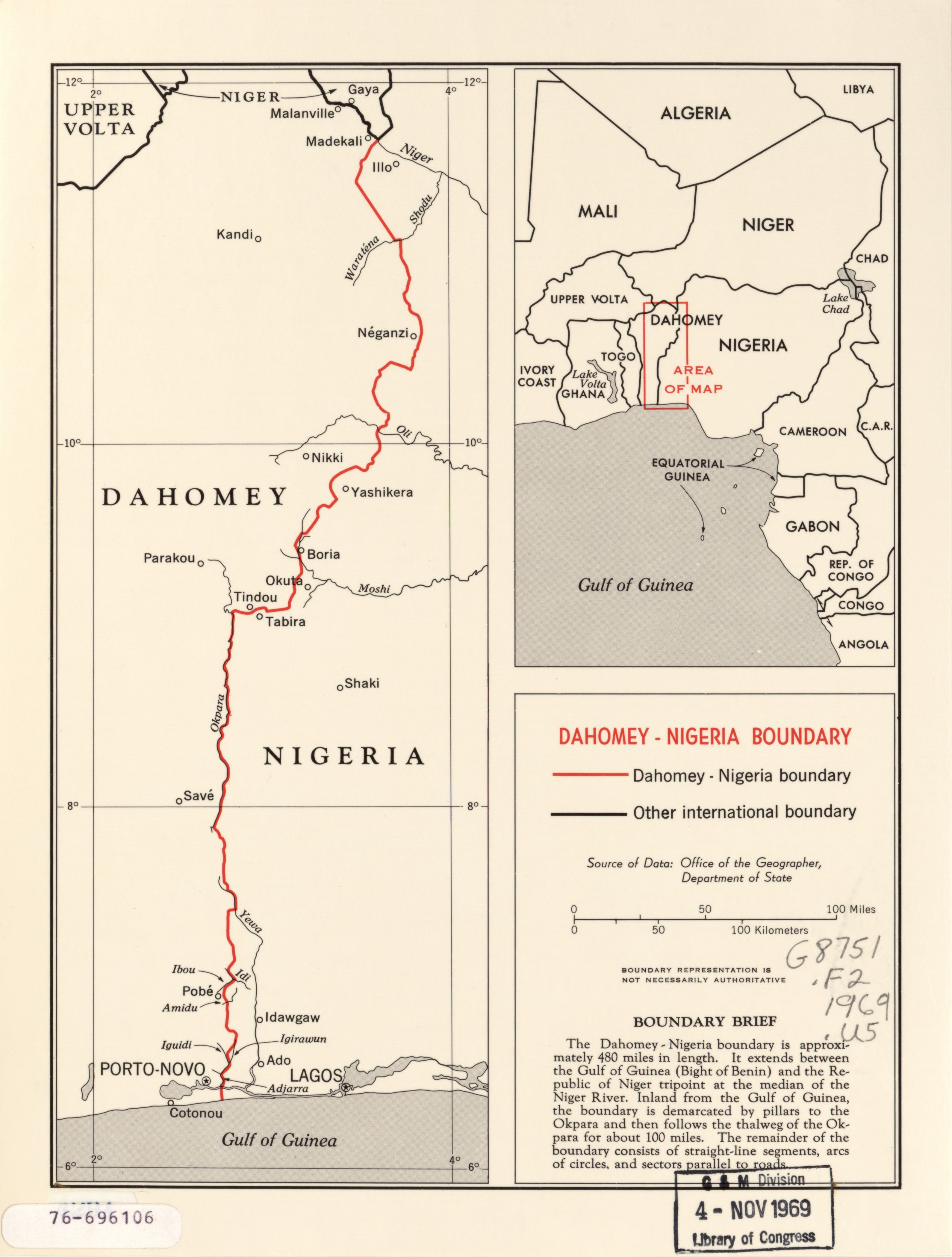 Scale ca. 1:2,900,000. "Source of data: Office of the Geographer, Department of State." Includes text and location map. Available also through the Library of Congress Web site as a raster image. AACR2